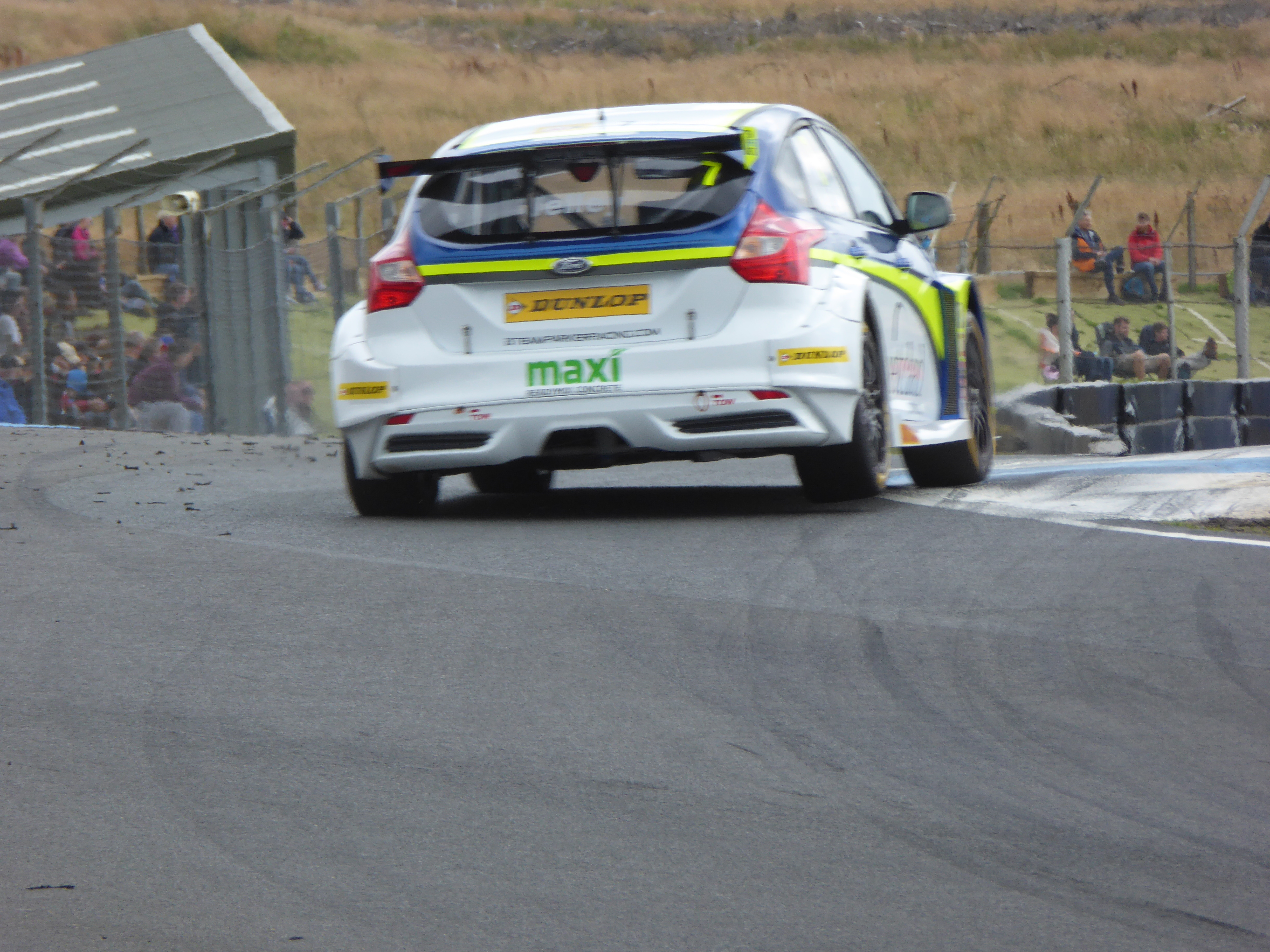 Stephen Jelley (Team Parker Racing with Maximum Motorsport), at the Knockhill round of the 2017 British Touring Car Championship.